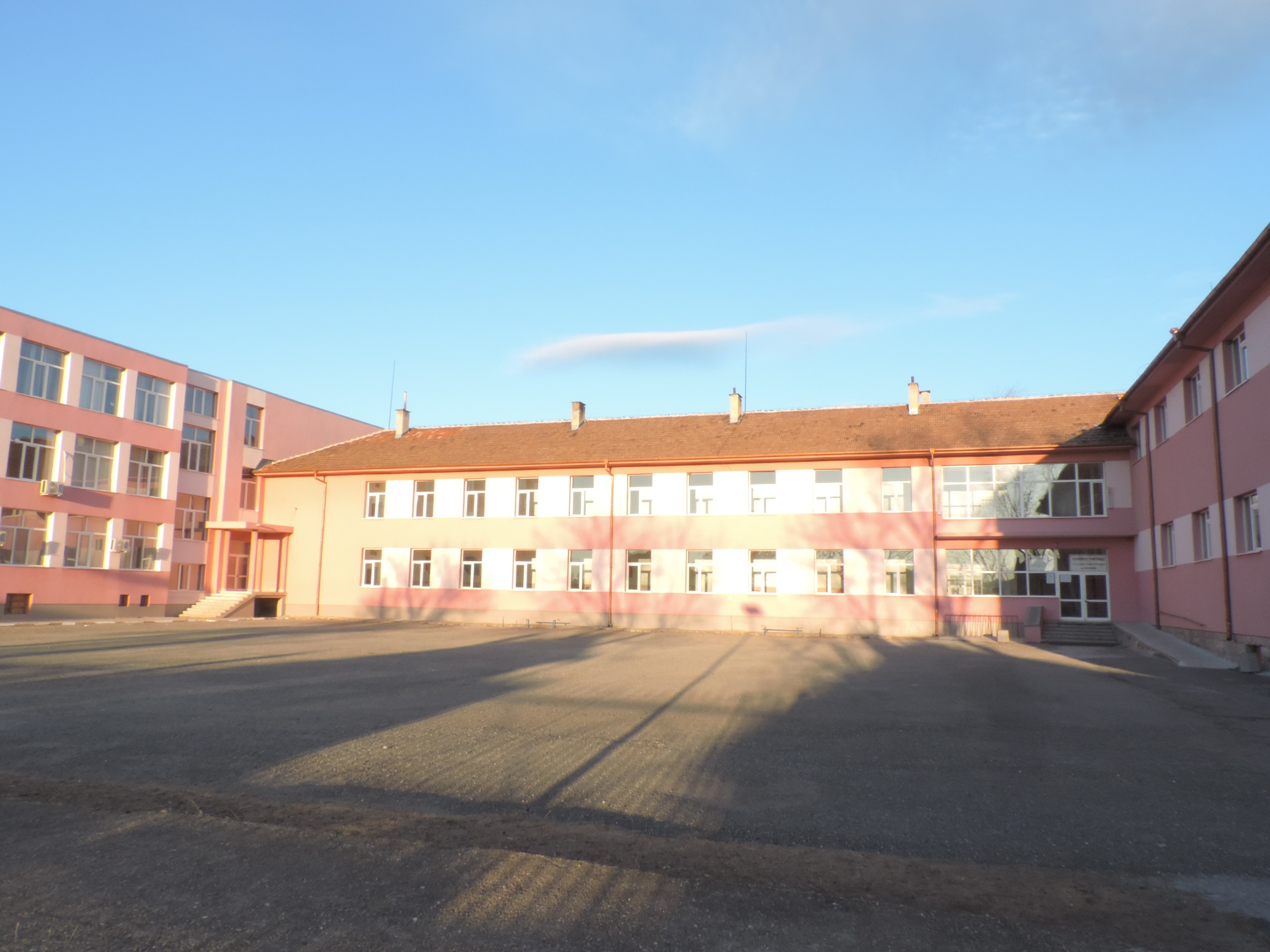 Elementary school "St. Cyril and Methodius" in the town of Nikolaevo, Bulgaria.